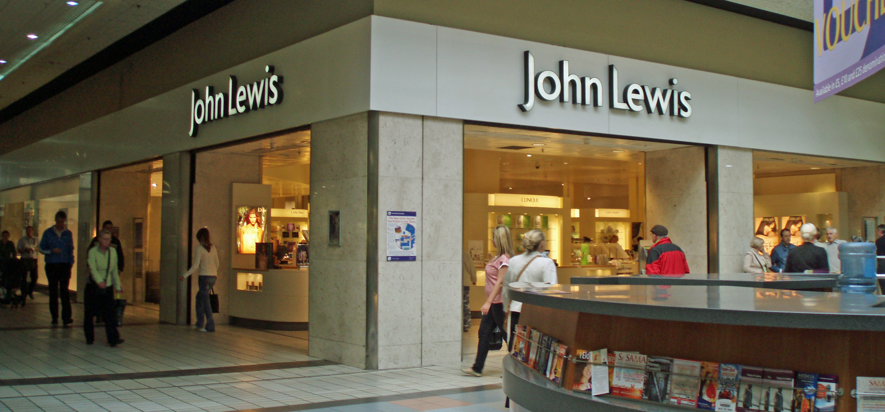 This is an image the Eldon Square entrance of the John Lewis department store in Newcastle upon Tyne, England